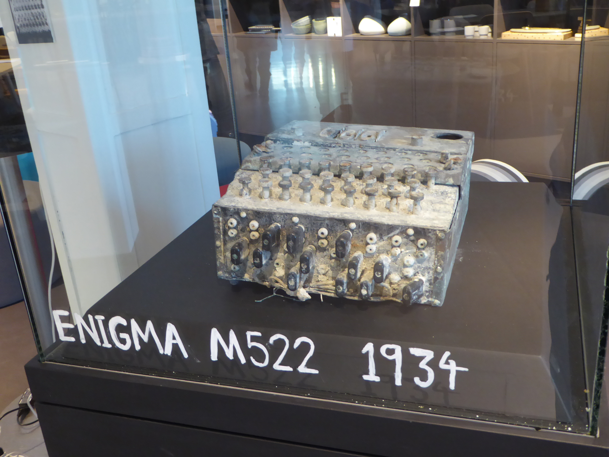 The opening day of the postal and communication museum Enigma in Østerbro in Copenhagen. The German cipher machine Enigma M522 from 1934, probably the oldest existing Enigma in the world.